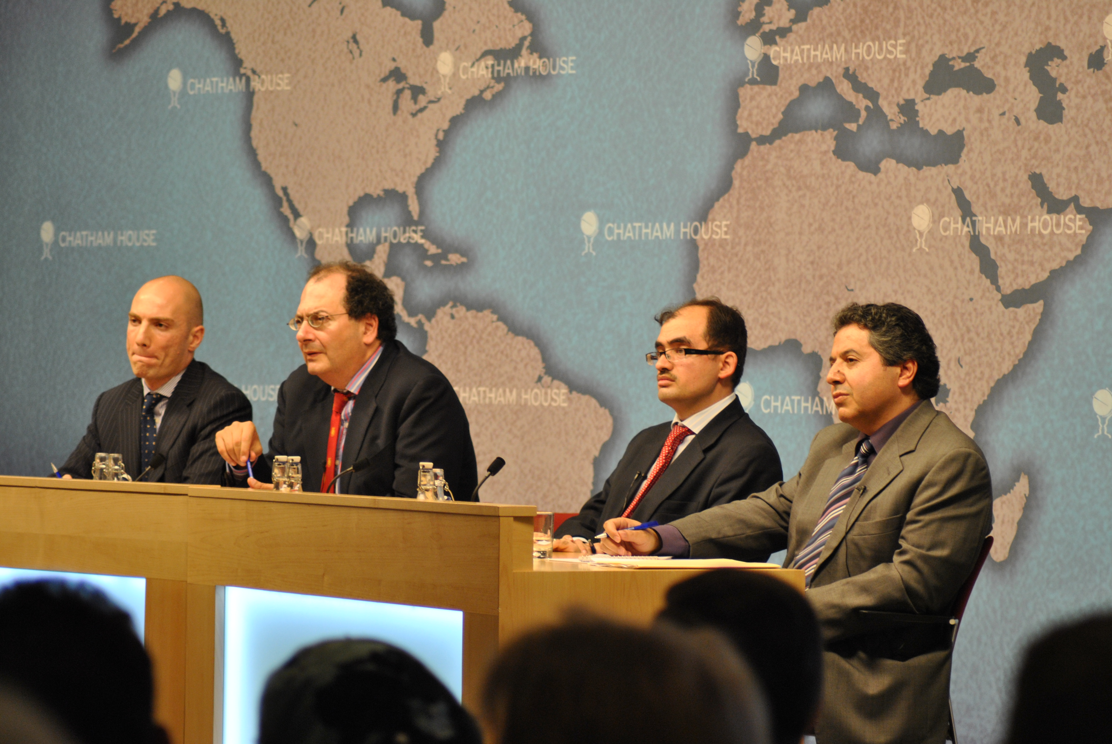 Ausama Monajed, Director of Communications, National Initiative for Change; Nadim Shehadi, Chatham House; Dr Radwan Ziadeh, Visiting Scholar, Carr Center for Human Rights at Harvard University; Dr Najib Ghadbian, Associate Professor of Political Science and Middle East Studies, University of Arkansas